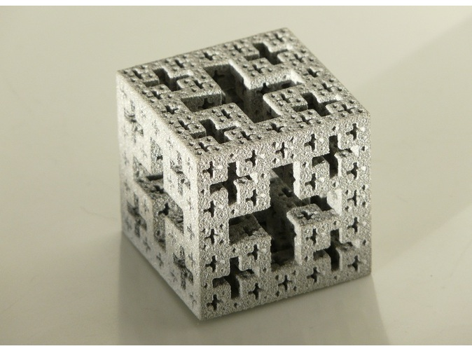 In mathematics, a Jerusalem Cube is a fractal object created by recursively drilling Greek cross-shaped holes into a cube. The name comes from a face of the cube resembling a Jerusalem cross pattern. 3D print designed by Jeremie Brunet.